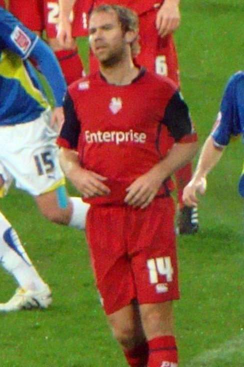 05/12/09 Cardiff V Preston, Cardiff City Stadium, Cardiff, Wales